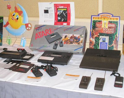 Photo by John Pilge, 2005.